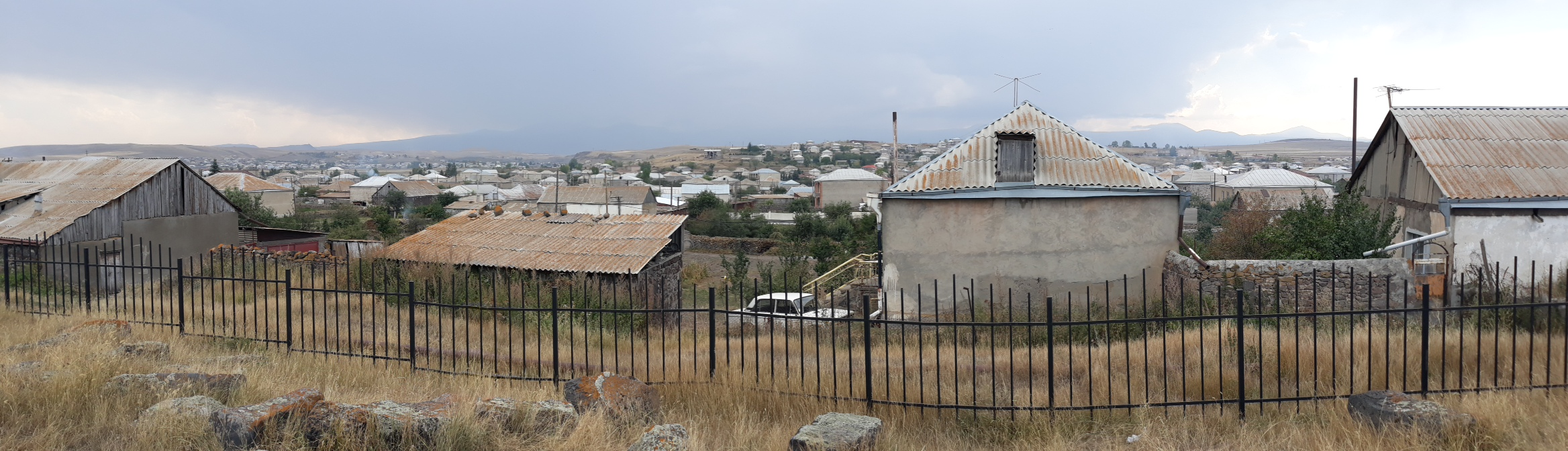 Panoramic view of Noraduz village